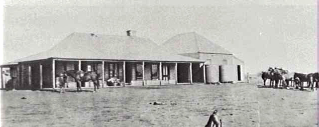 One Tree Hotel, New South Wales Australia